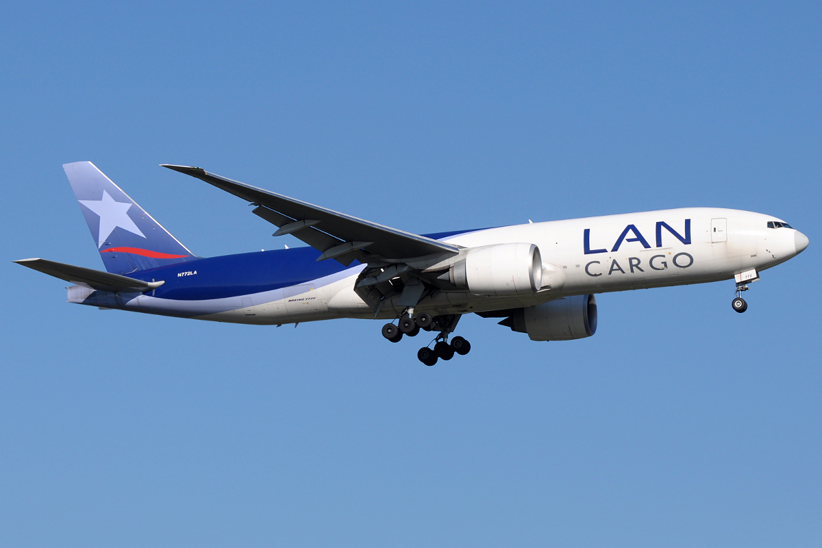 A LAN Cargo Boeing 777 Freighter landing in Frankfurt